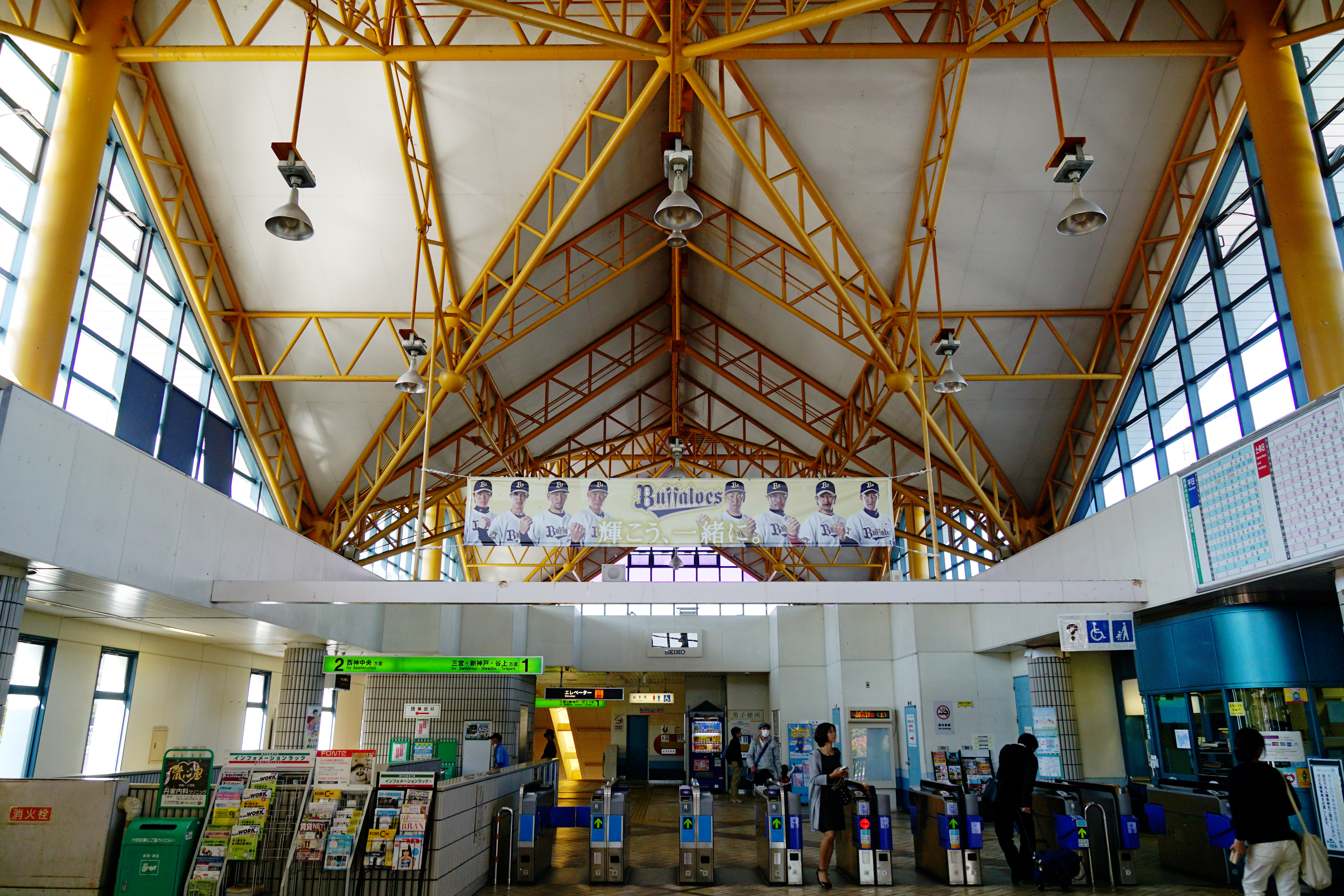 Sōgō Undō Kōen Station in Kobe, Hyogo prefecture, Japan